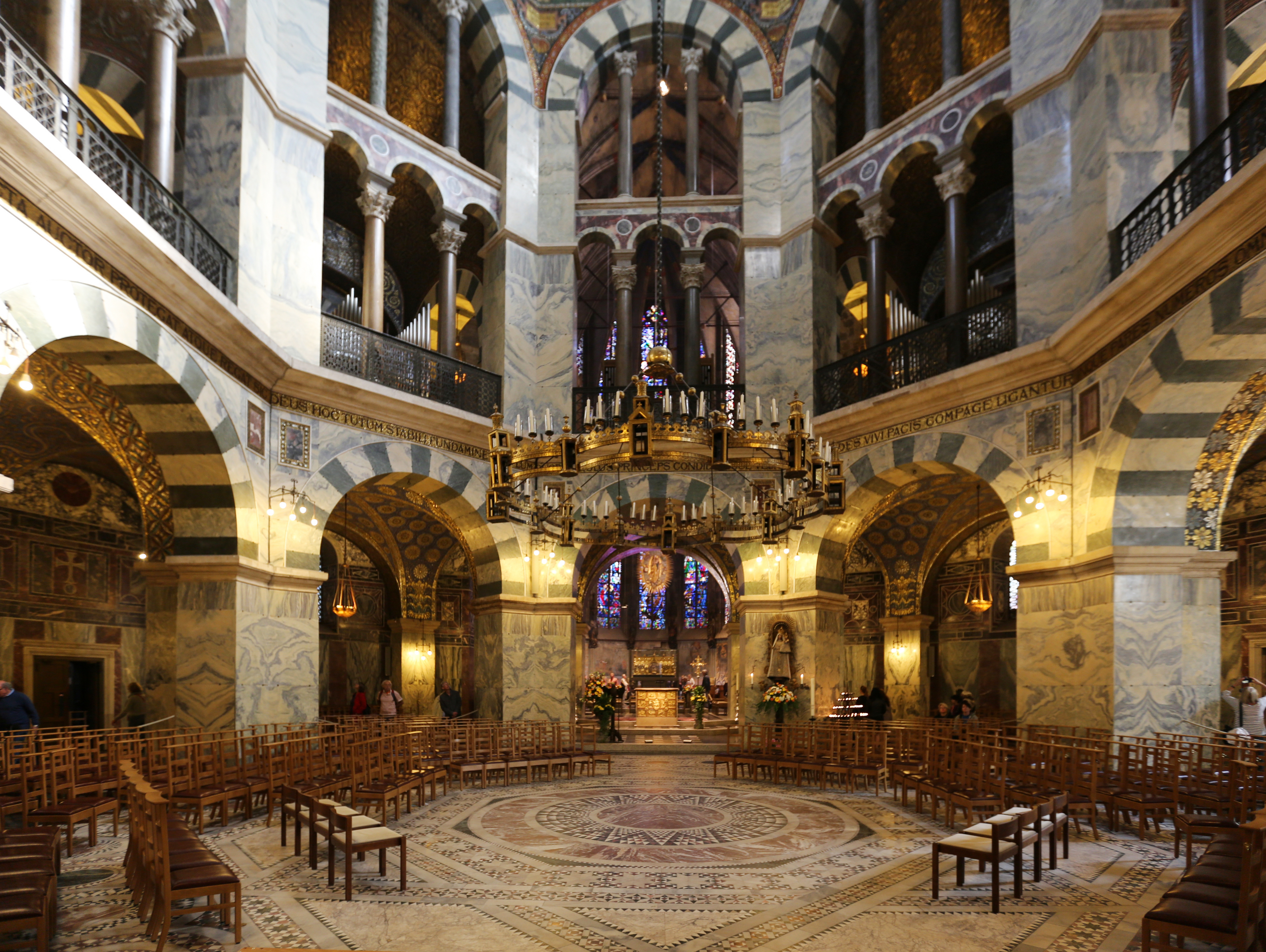 Interior of palatine chapel in Aachen Cathedral, Germany